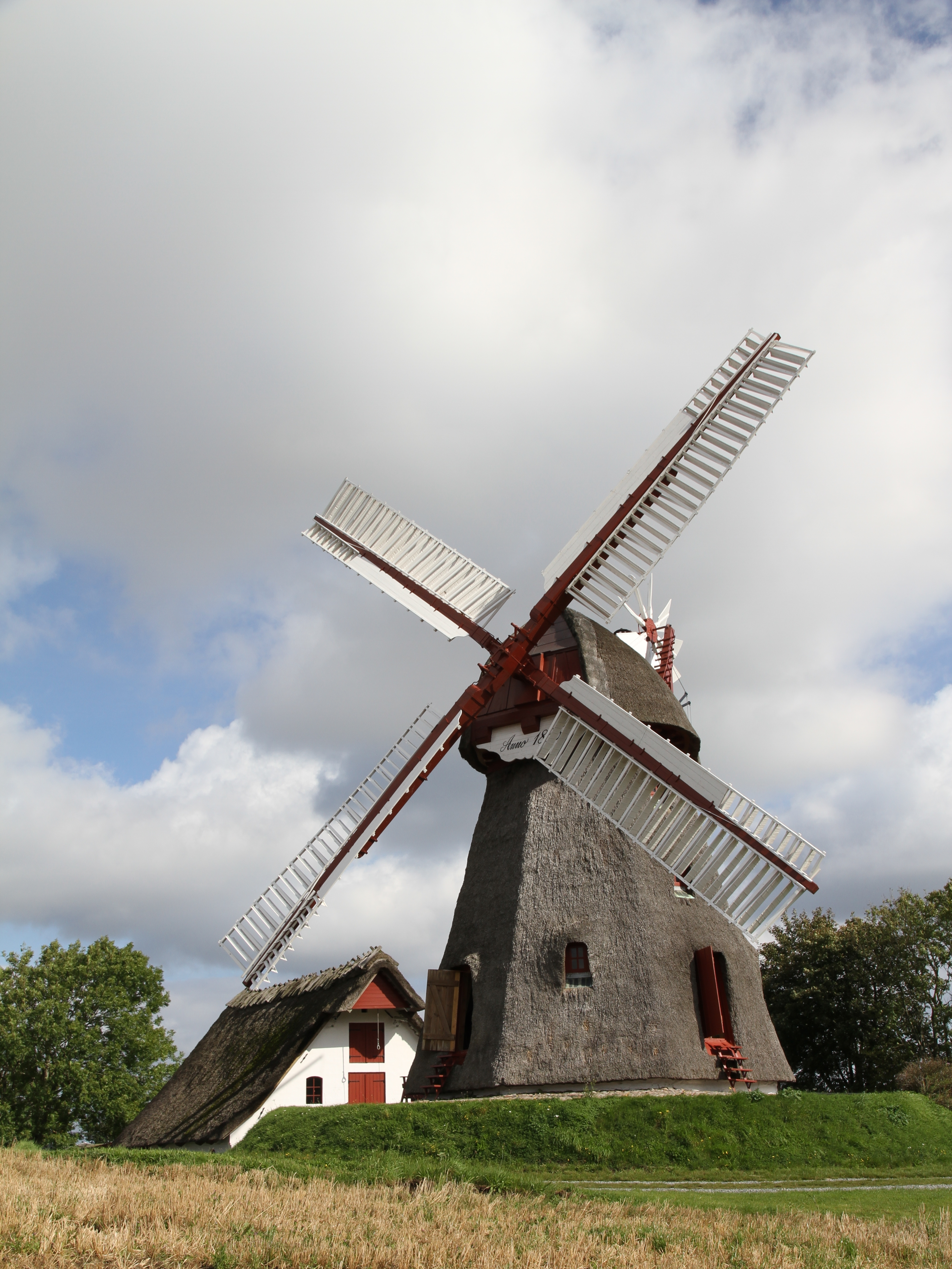 Havnbjerg Windmill from 1835, Als, Denmark.